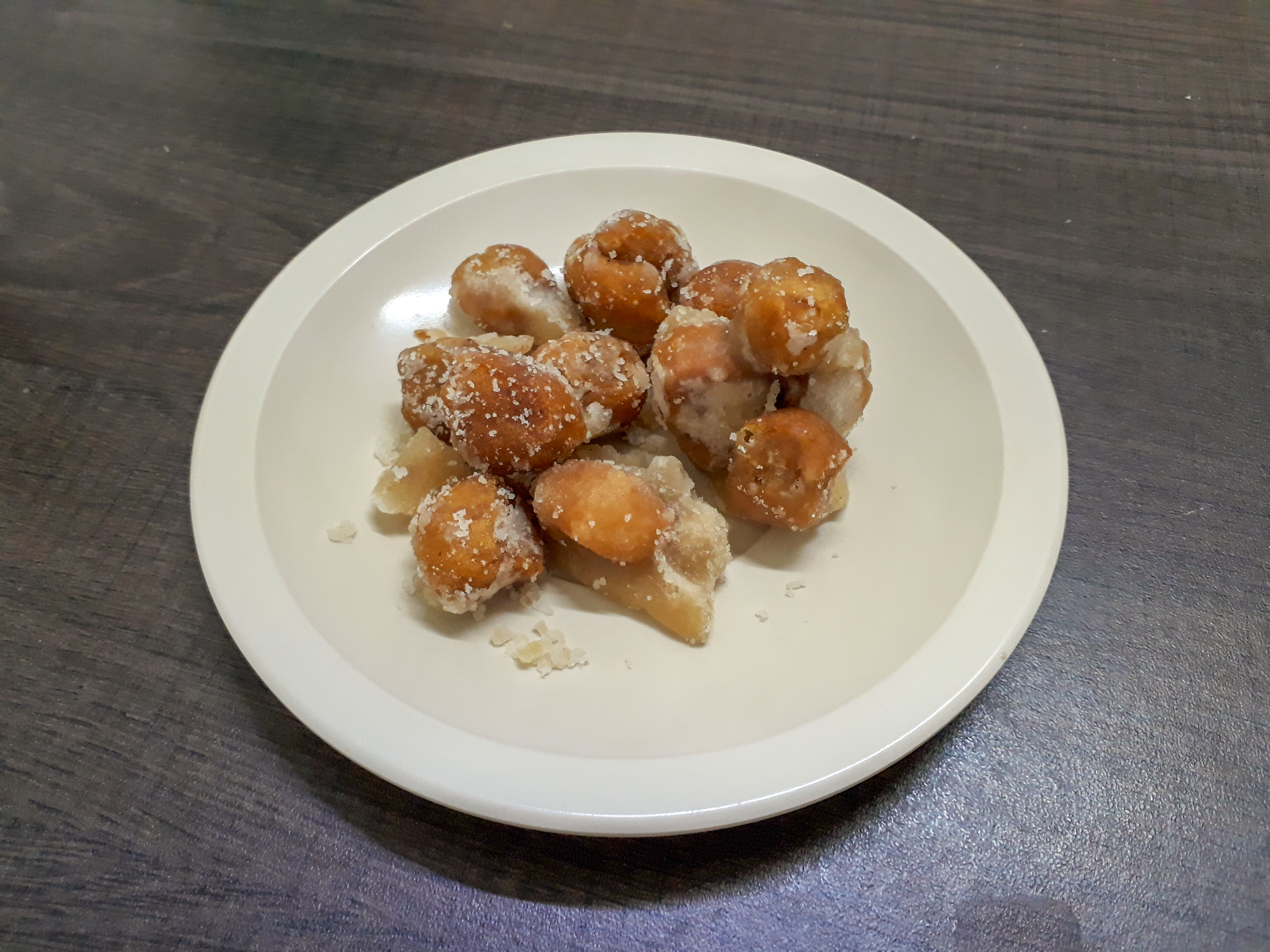 Popular candy in Espita, Yucatan